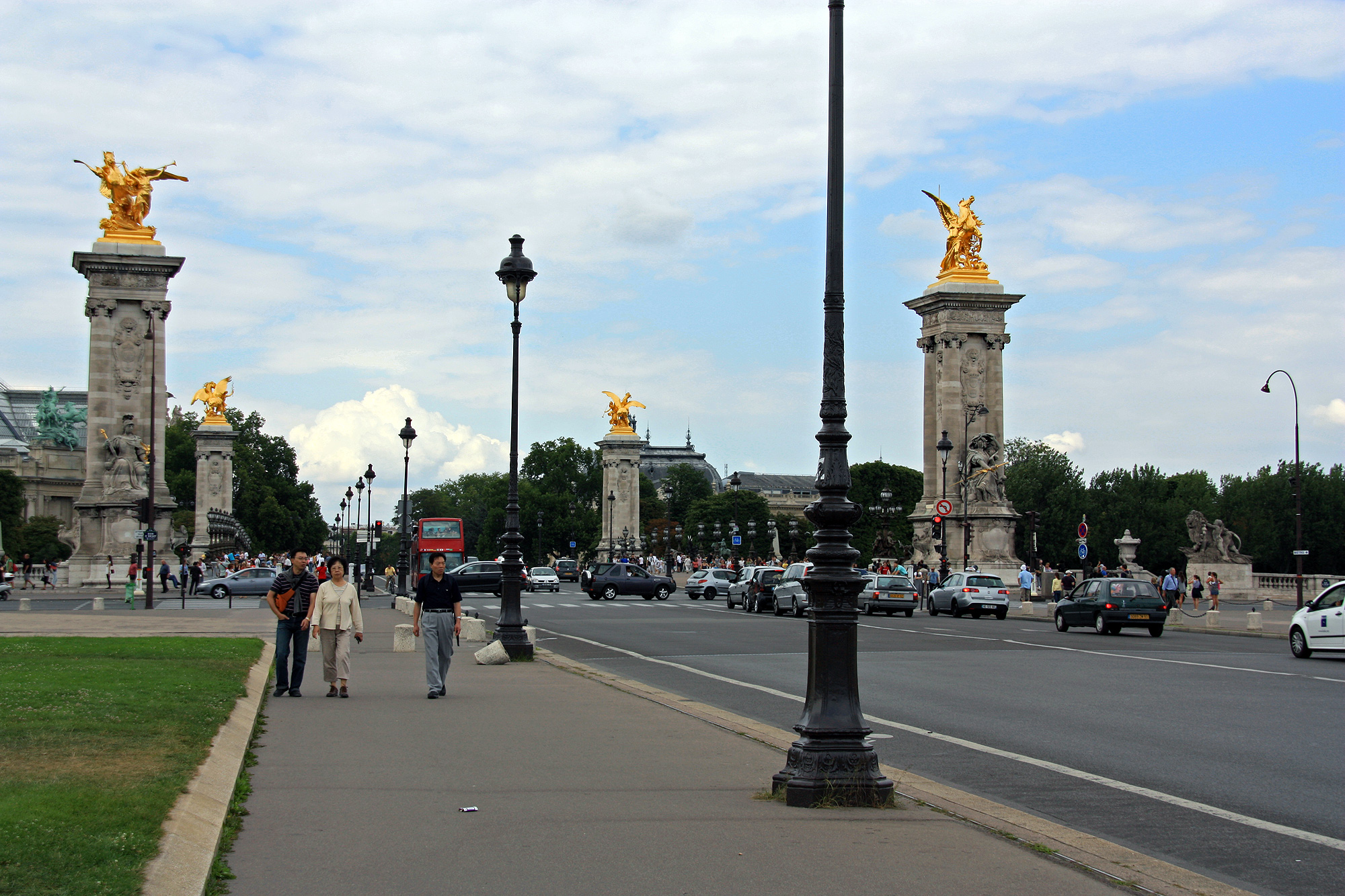 Alexander III Bridge in Paris